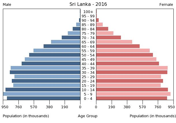 The population pyramid of Sri Lanka illustrates the age and sex structure of population and may provide insights about political and social stability, as well as economic development. The population is distributed along the horizontal axis, with males shown on the left and females on the right. The male and female populations are broken down into 5-year age groups represented as horizontal bars along the vertical axis, with the youngest age groups at the bottom and the oldest at the top. The shape of the population pyramid gradually evolves over time based on fertility, mortality, and international migration trends.